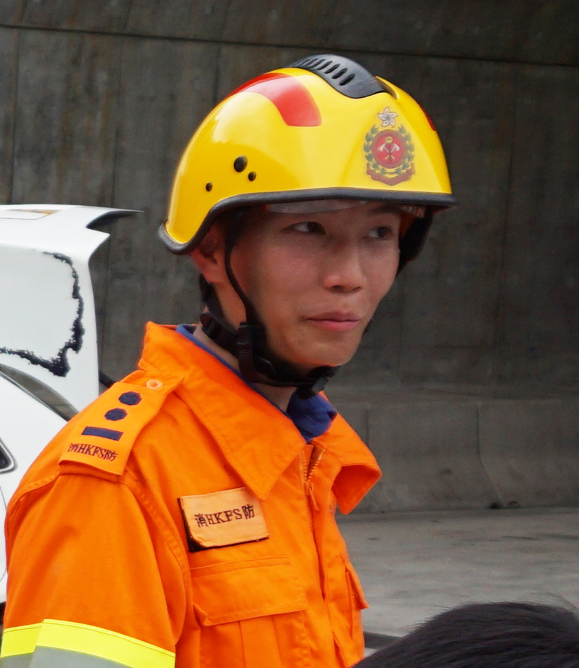 YS-Cheung Thomas, Hong Kong.